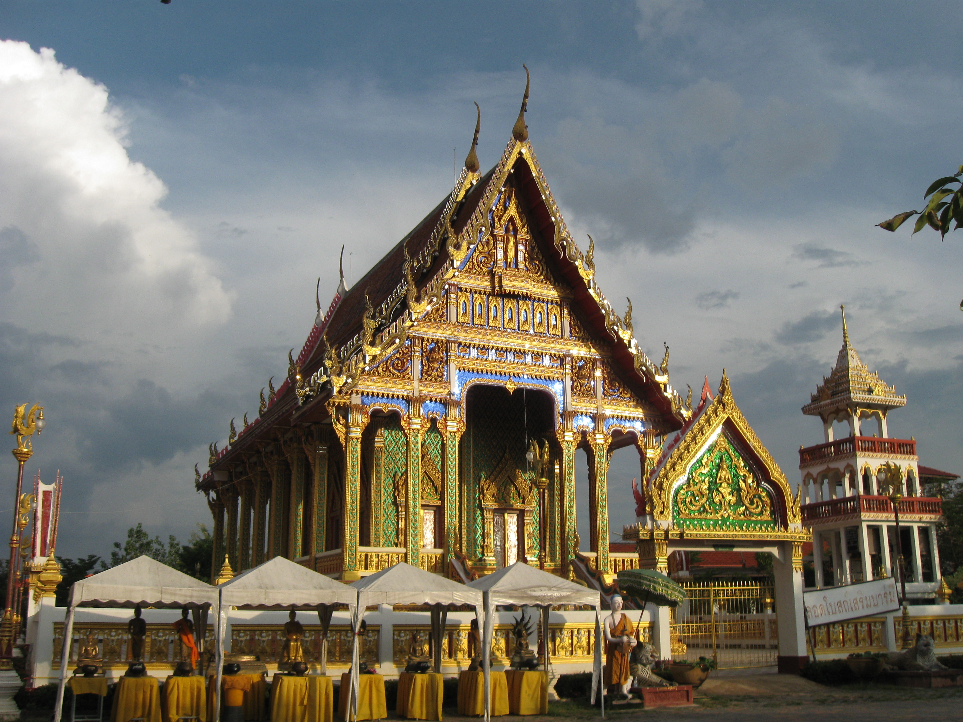 Wat Nong Yai, Pattaya Thailand in November 2013